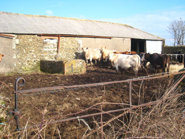 Cattle by the old barn Next to the crossroads near Cargoll.